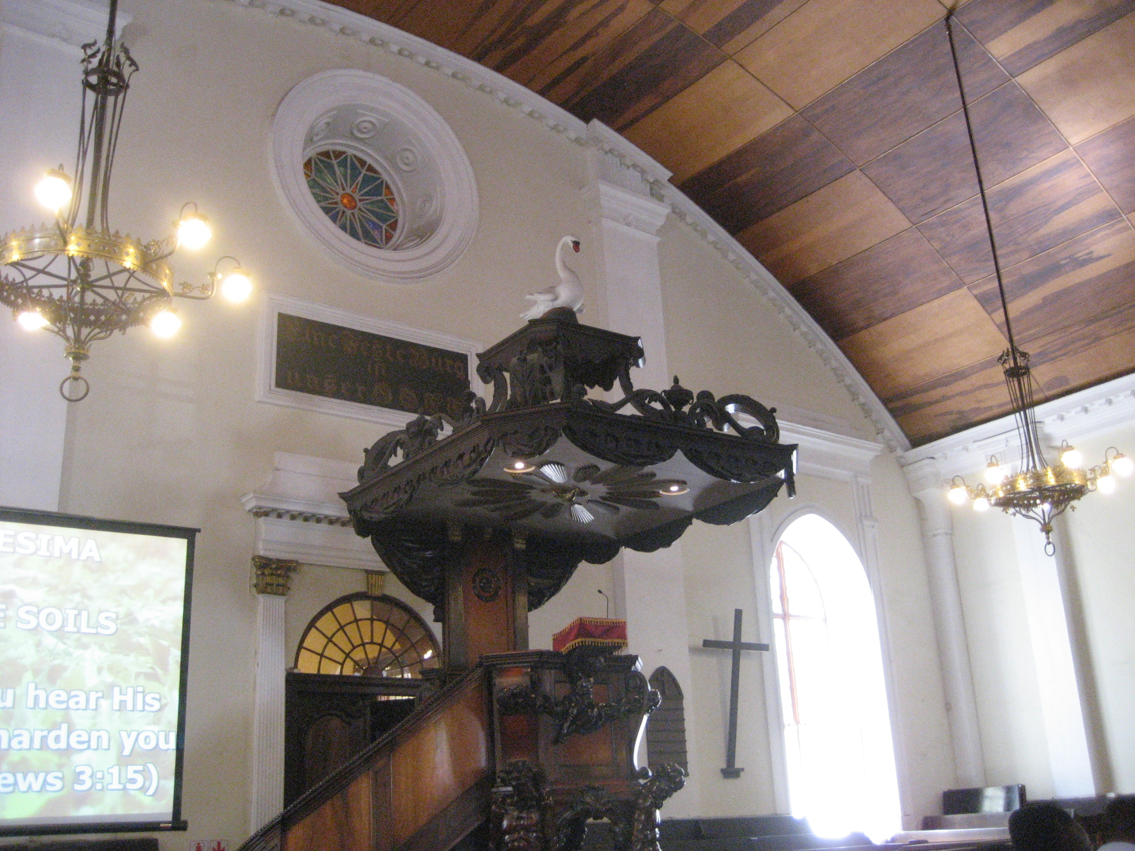 Lutheran Church, Cape Town, South Africa. "Ein fester Burg ist unser Gott". Sculpture of a swan, as a symbol of Lutheranism. Sculptor of the pulpit: Anton Anreith.